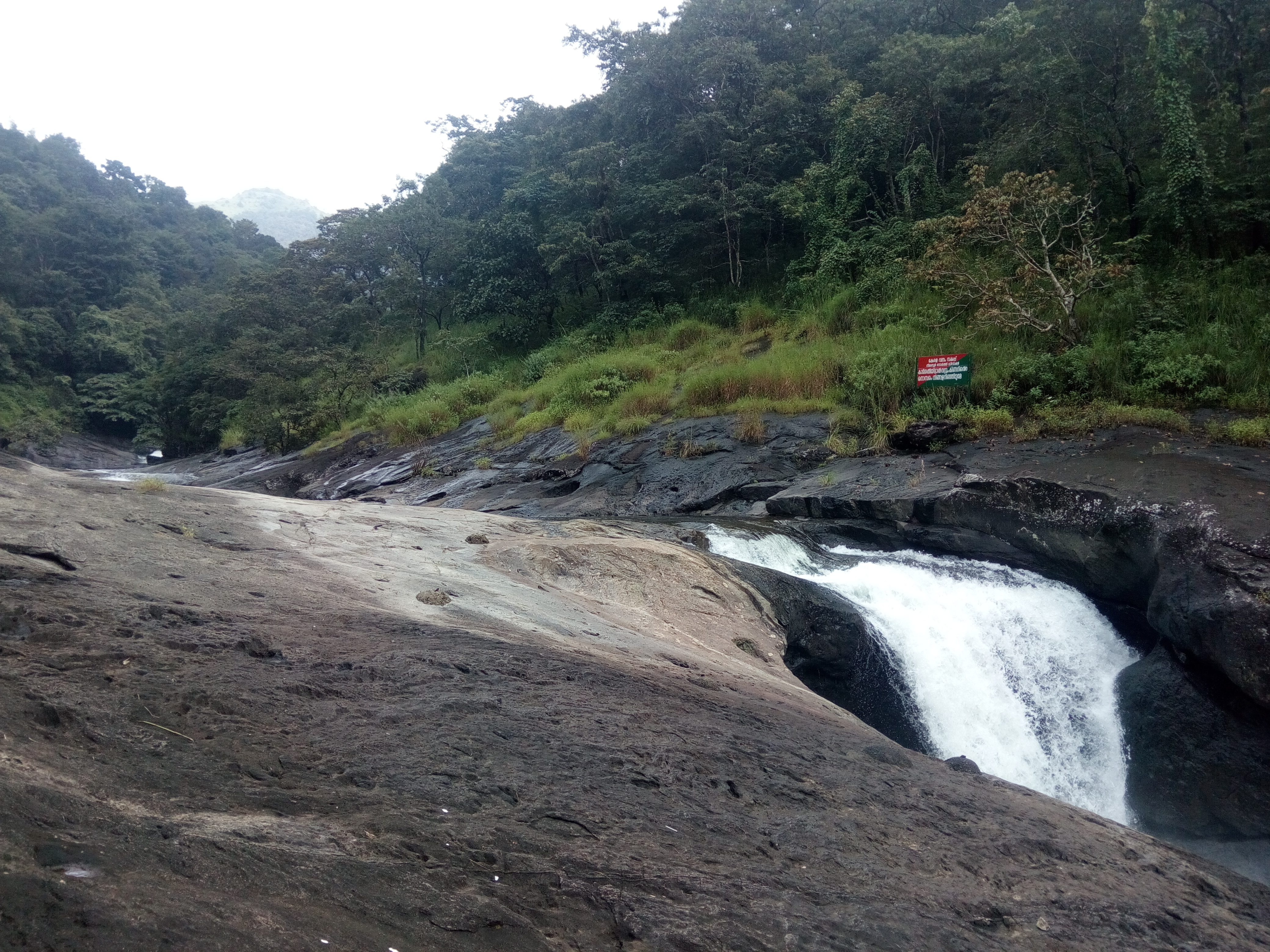 Kozhippara waterfalls is in malappuram dist.